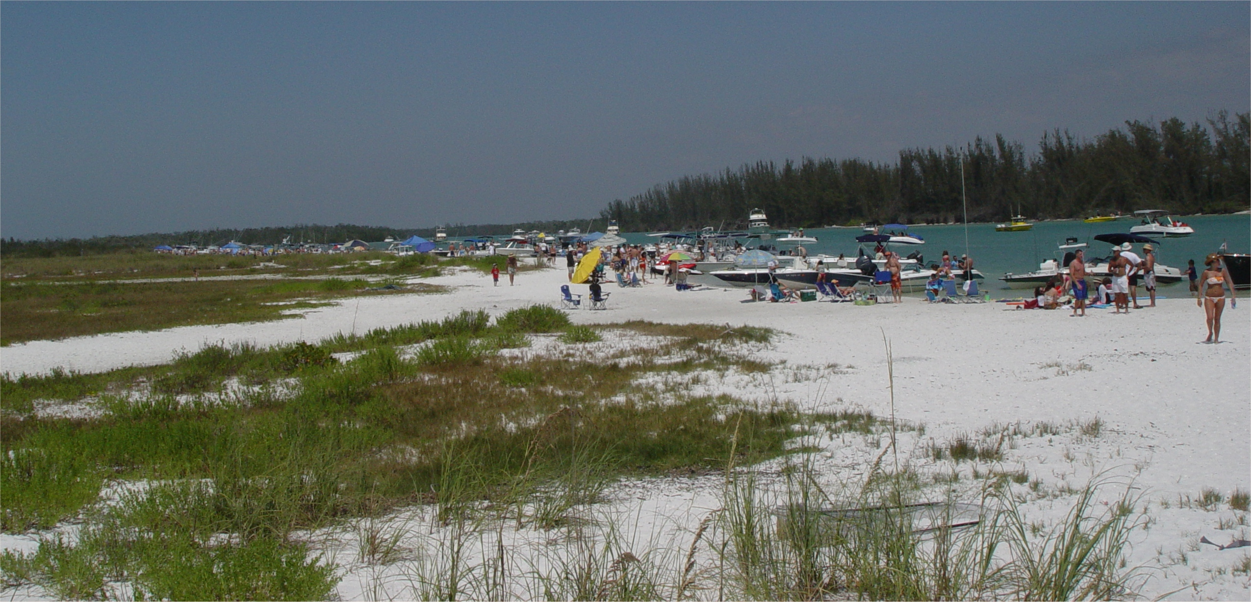 March 2006 photo of the public beach on Keewaydin Island. The public beach is at the far Southern end of the island.